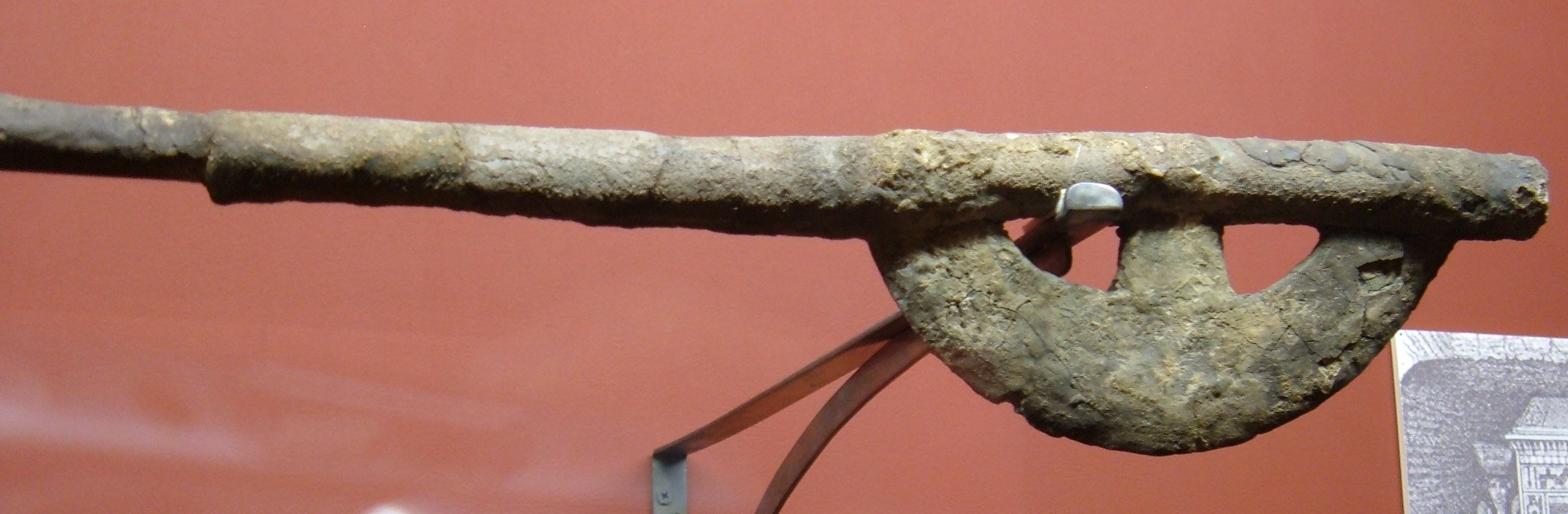 Copper battle axe with wooden shaft (Dynasty 12), which would have been found in a soldier's tomb on display at the Rosicrucian Egyptian Museum in San Jose, California. RC 1938